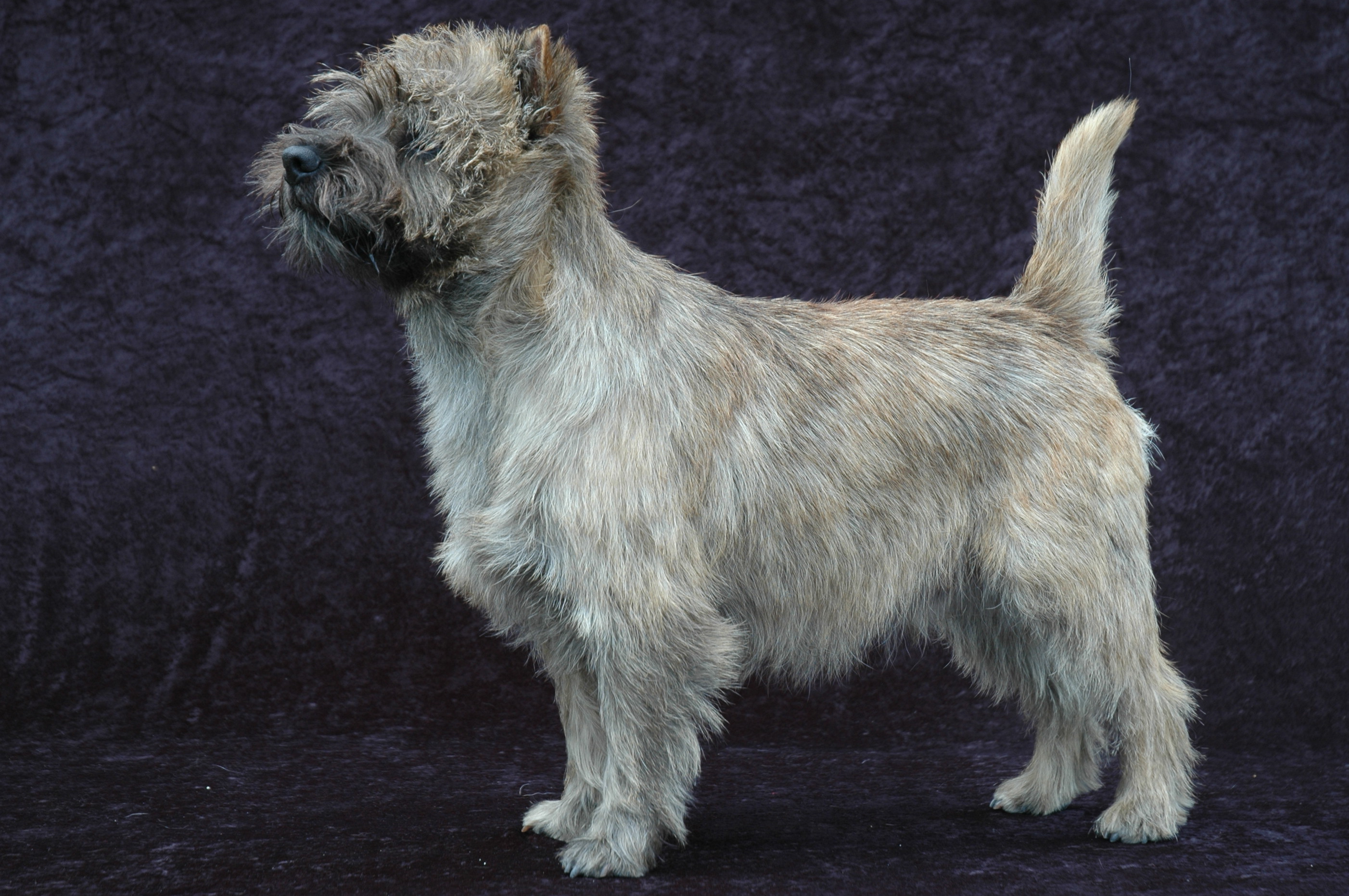 A stacked up Cairn Terrier